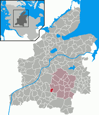 Locator maps of municipalities in Schleswig-Holstein - District Rendsburg-Eckernförde